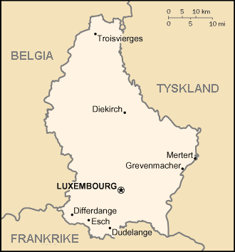 Map of Luxembourg with Norwegian text